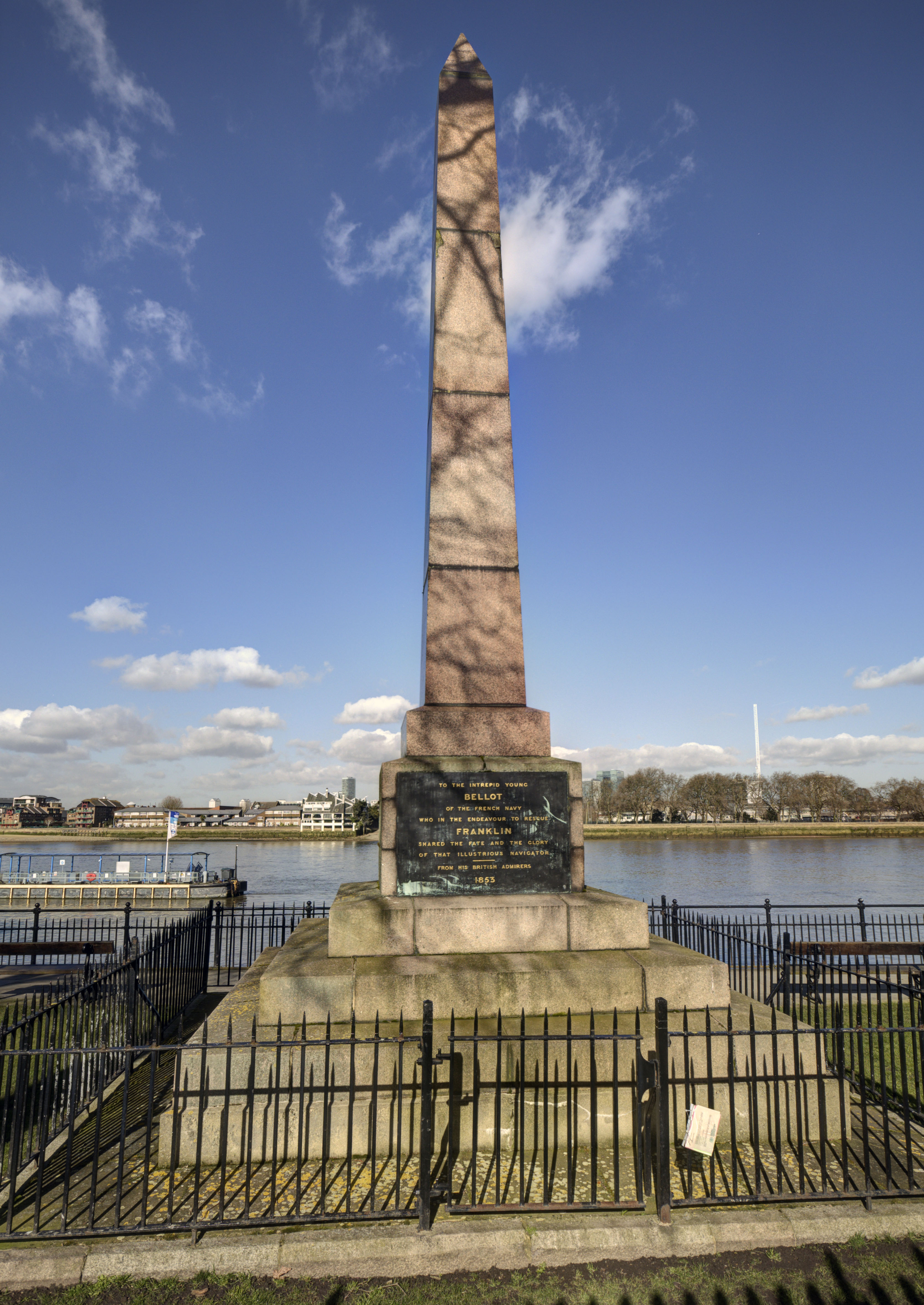 Bellot Memorial, Old Royal Naval College, Greenwich